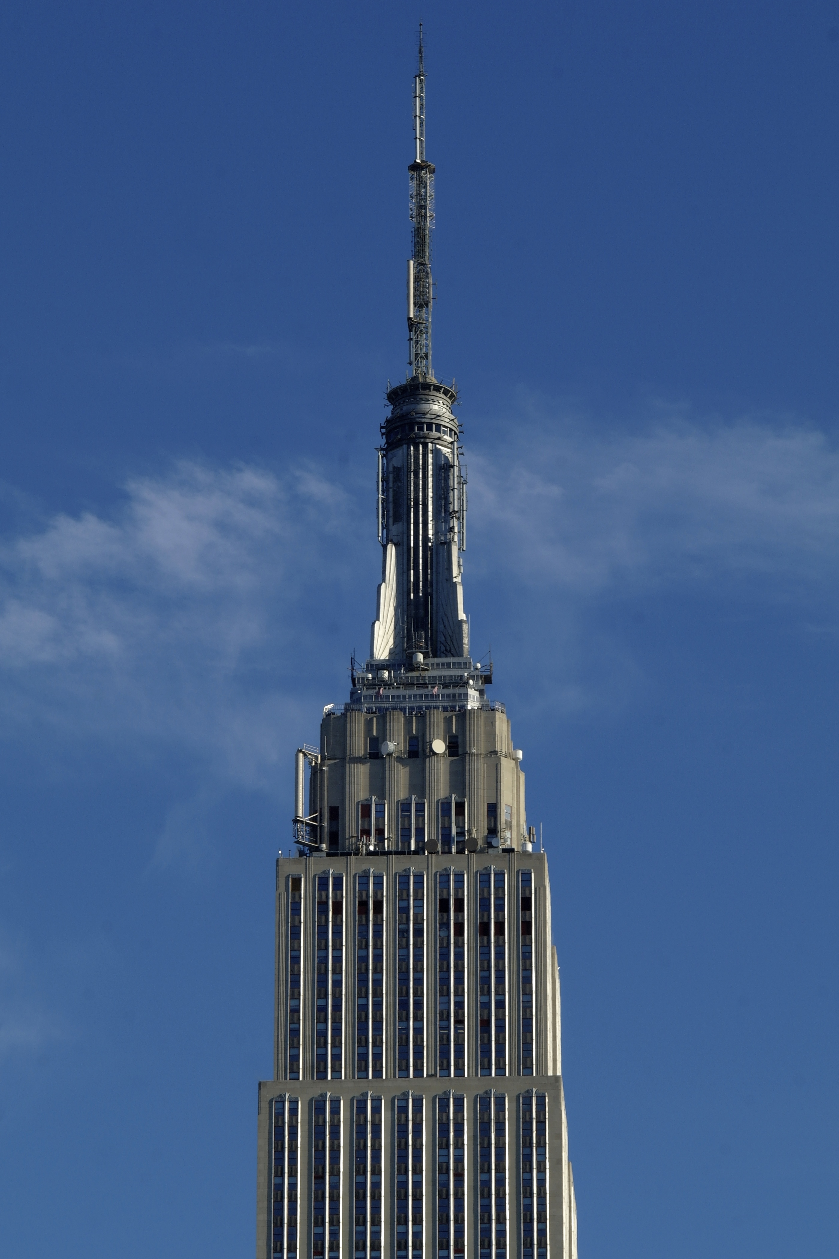 Empire State Building